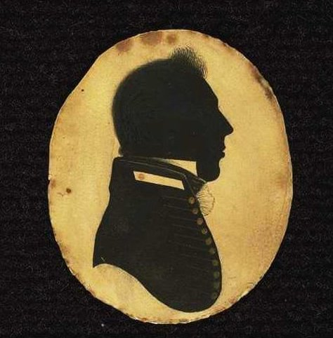 Portrait of Lt. Henry Lidgbird Ball, Commander of HMS Supply, one of the ships of the First Fleet